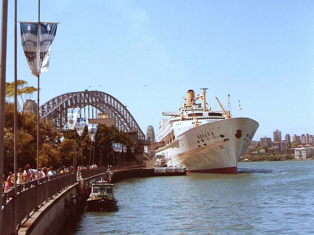 ss Oriana in Sydney, 1984 Photo by Paul Dashwood